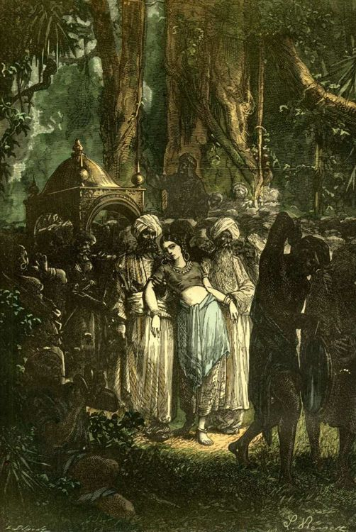 An ilustration from the novel "Around the World in Eighty Days" by Jules Verne painted by Alphonse de Neuville and/or Léon Benett.